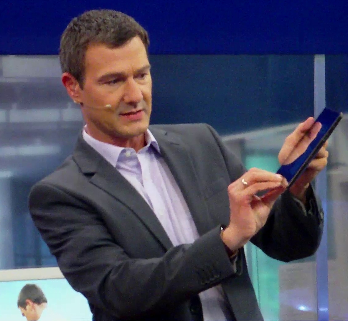 German TV presenter and journalist Marcus Tychsen at trade fairy IFA in Berlin